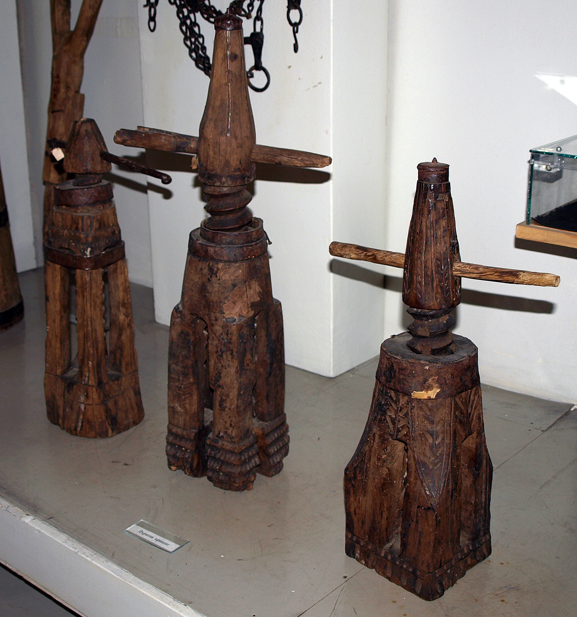 19th and early 20th century wooden jacks for cart and wagon repair from Ethnographic Museum of Elhovo, Bulgaria